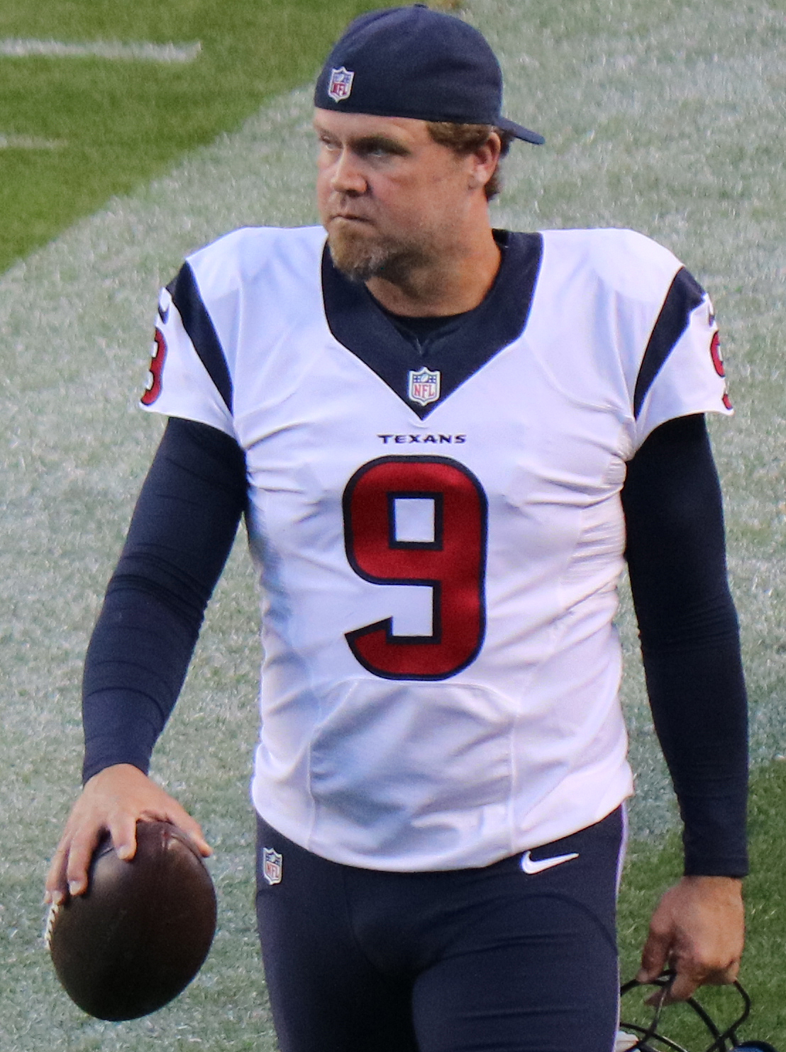 Shane Lechler, a player on the National Football League.